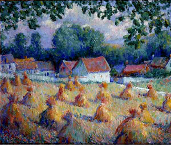 Haystacks